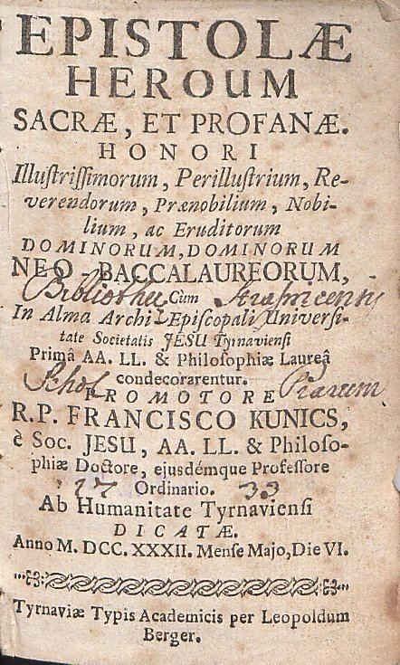 Cover of the 1732 book Epistolae heroum sacrae et profanae by Francisco Kunics/Kunics Ferenc